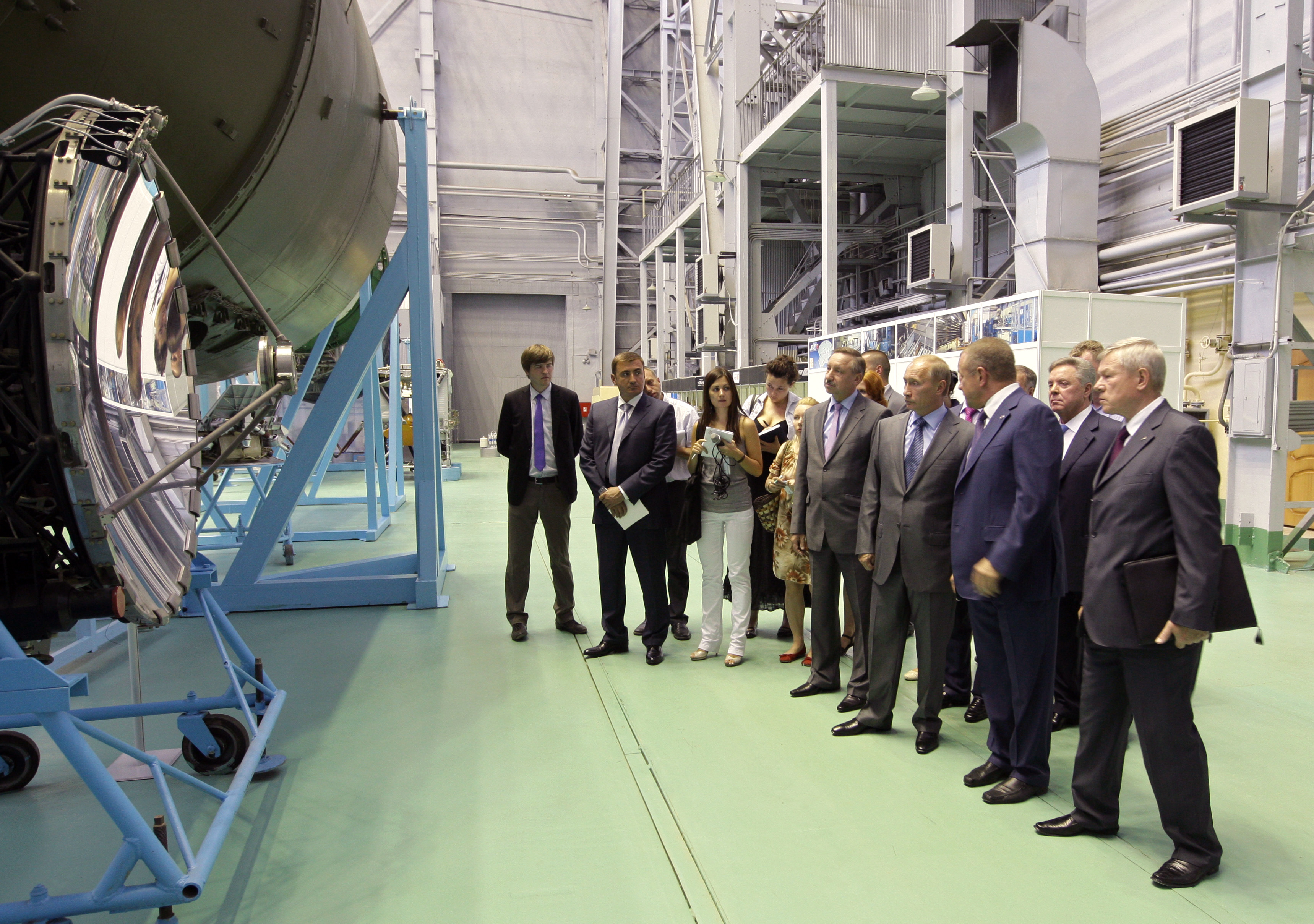 Prime Minister Vladimir Putin inspecting a test and control station at the Energia Rocket and Space Corporation